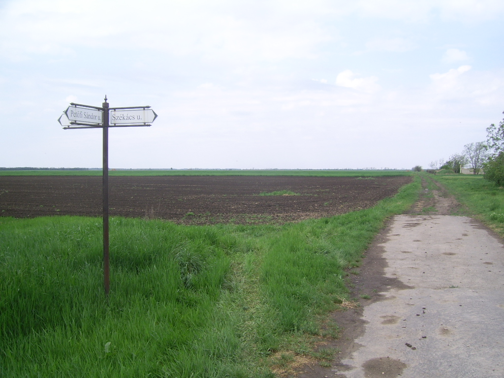 Árpádhalom, Landscape, Hungary